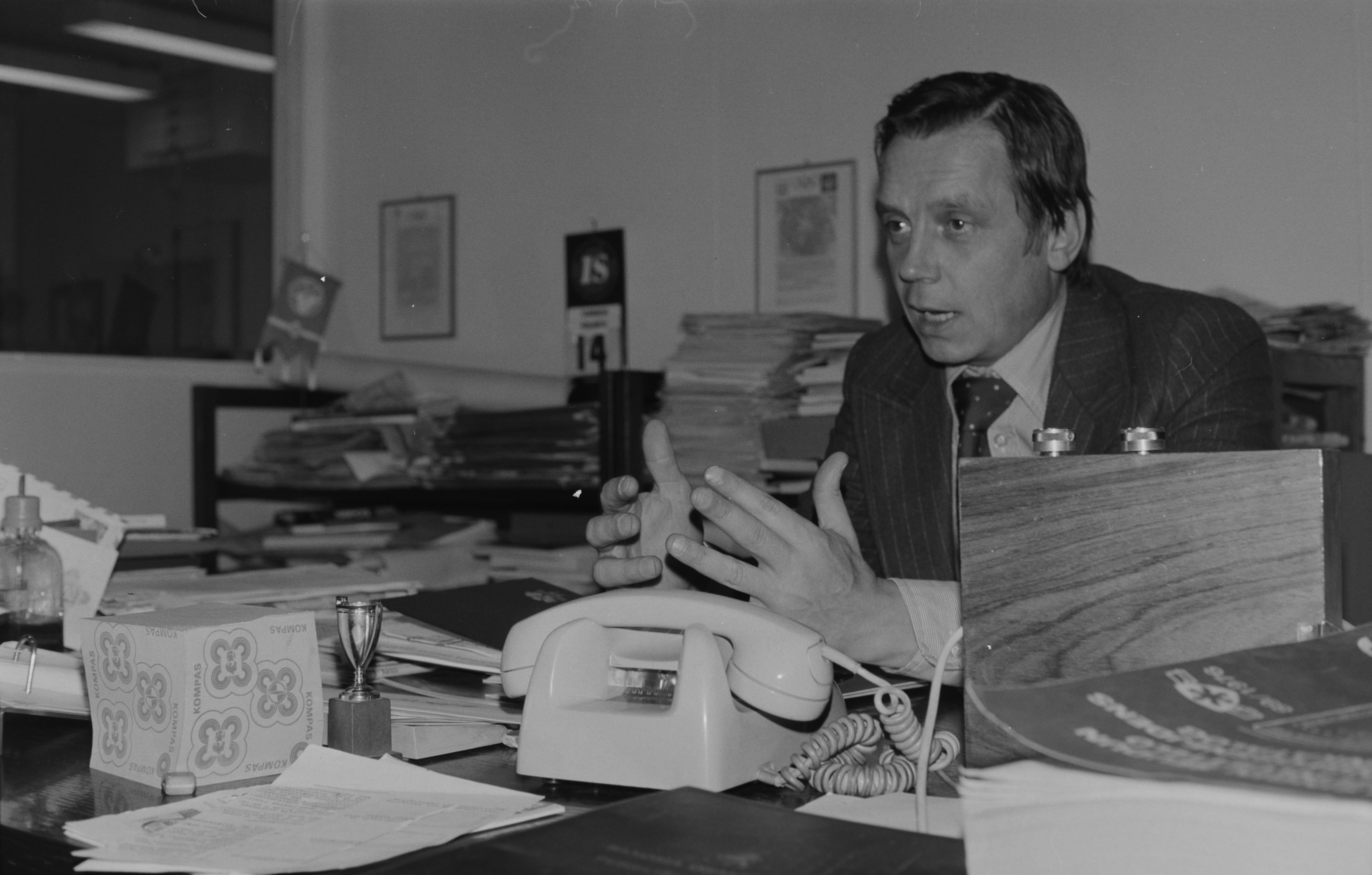 Photograph of Martti Huhtamäki (1935–), the editor-in-chief of Ilta-Sanomat newspaper, sitting behind his desk.